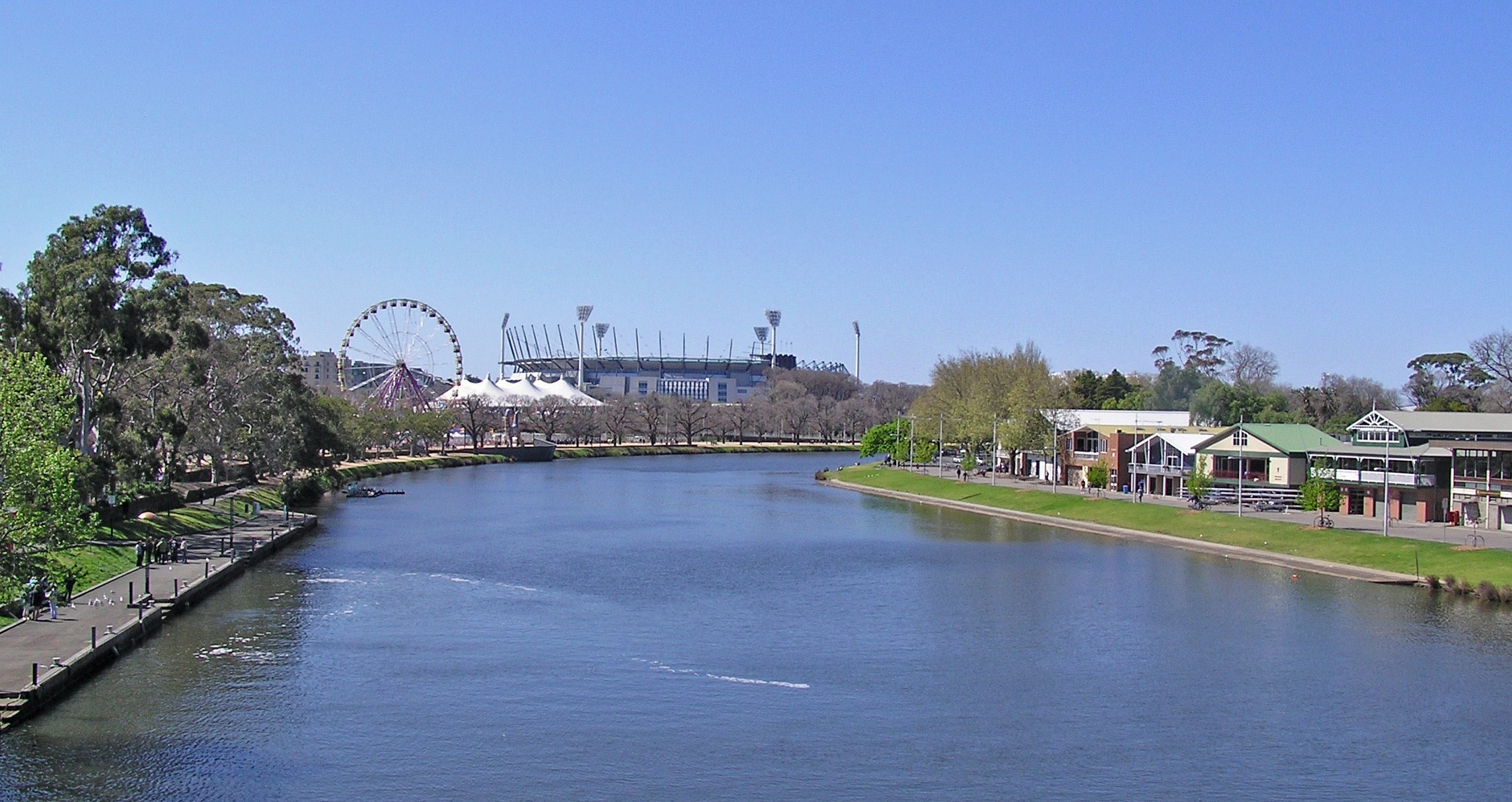 Melbourne MCG & Yarra River viewed from Princes Bridge. To the left of the photo is Federation Square and to the right is the boatsheds of assorted rowing clubs and private schools.